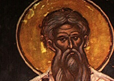 A fresco depicting St. Tarasios, who died in 806.